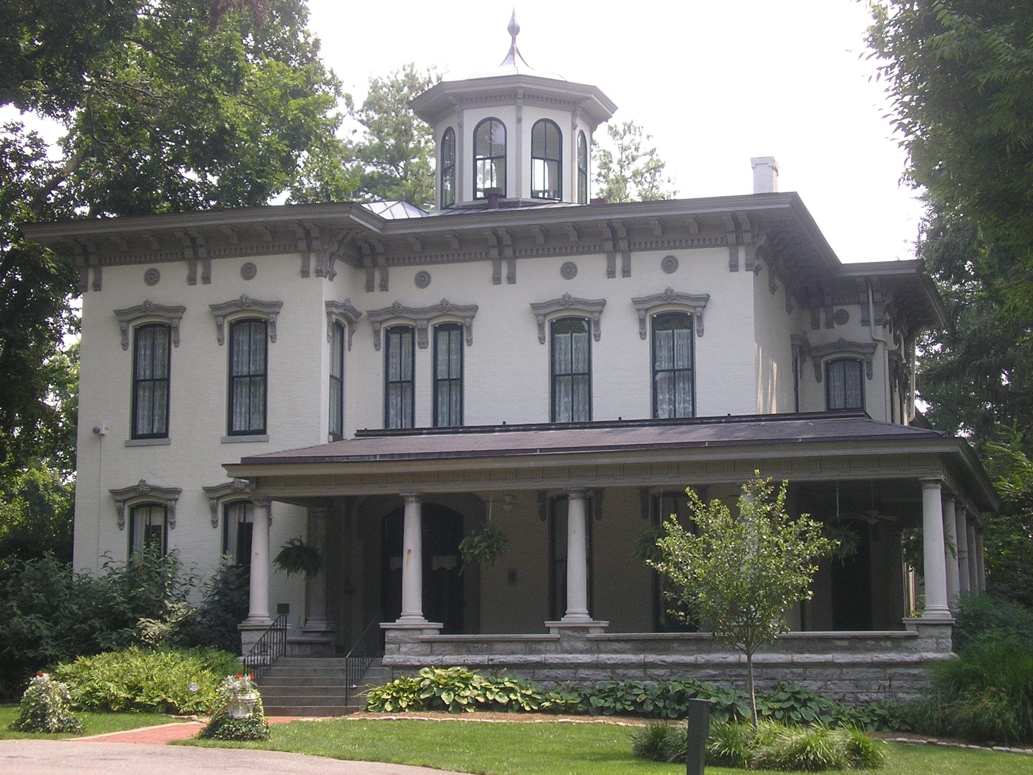 Front of the Peterson-Dumesnil House, located at 310 S. Peterson Avenue in Louisville, Kentucky, United States. Built in 1869, the house is listed on the National Register of Historic Places.